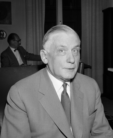 Edwin Linkomies in 1960.